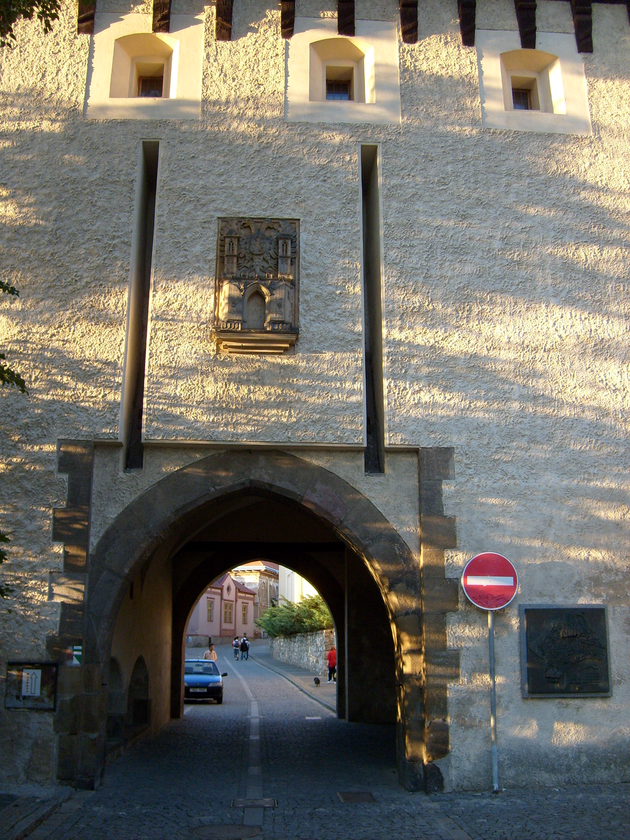 Kotnov Castle, Tábor, South Bohemian Region, Czech Republic